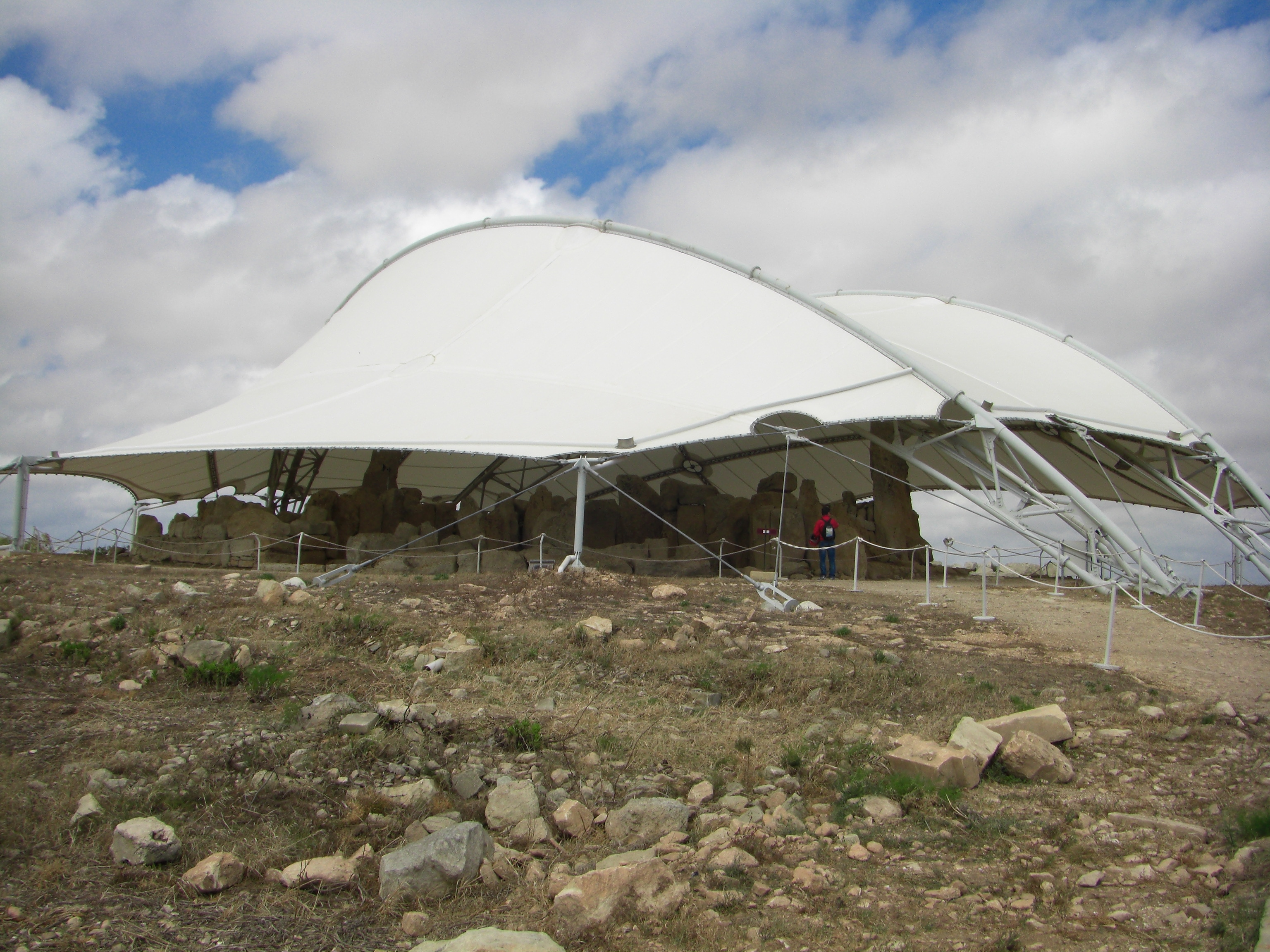 A new protective tent placed over the main Hagar Qim temple in Malta